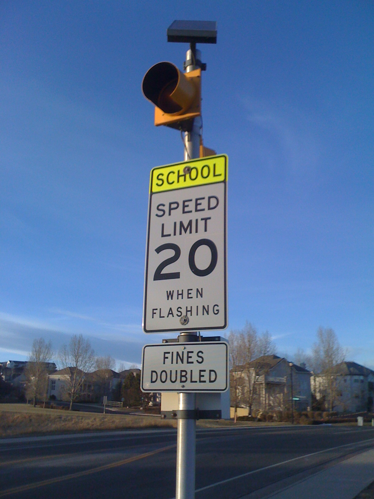 Feel free to use this image. Just link to